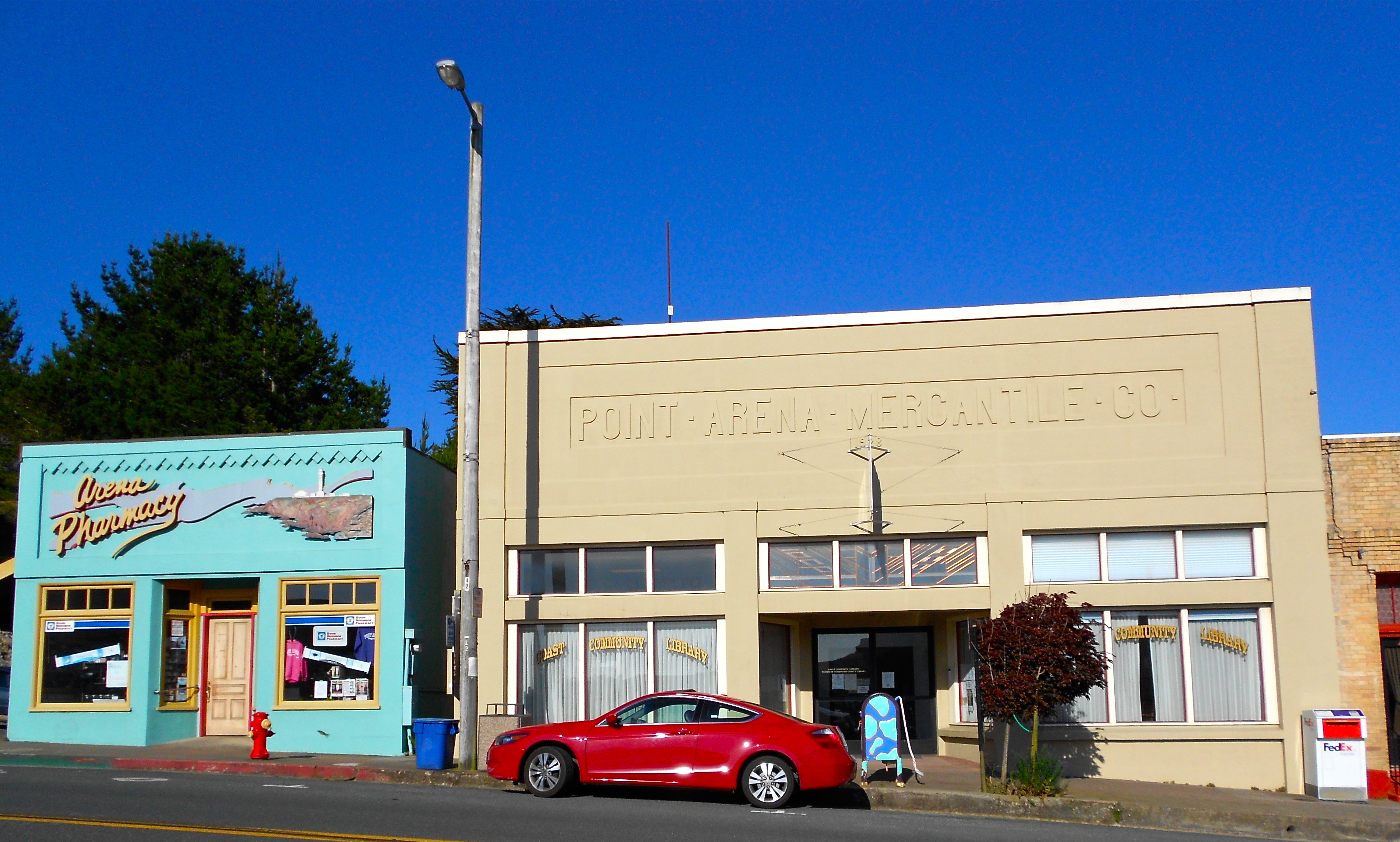 The Point Arena Mercantile Co. building (now the Library) in Point Arena, California.